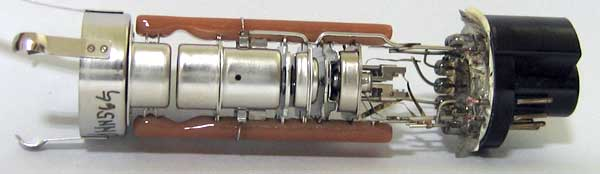 This is a close up photo of a thermionic electron gun assembly found on a colour Samsung CRT monitor. The gun produces three high speed individual electron beams for the three primary colours (Red, Green and Blue).